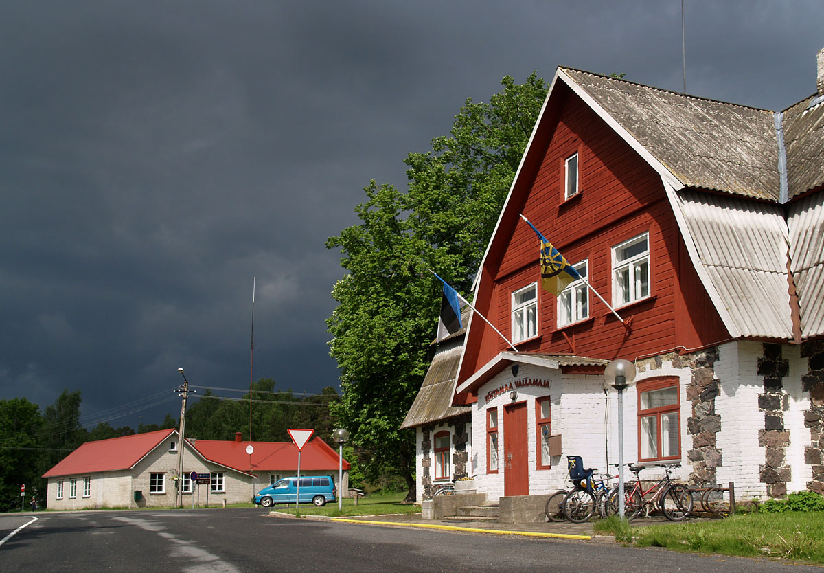 Tõstamaa community house